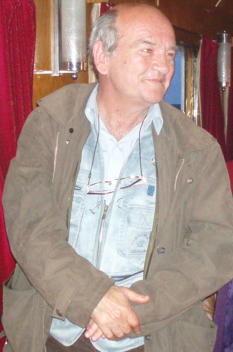 Romanian writer Ioan Groșan